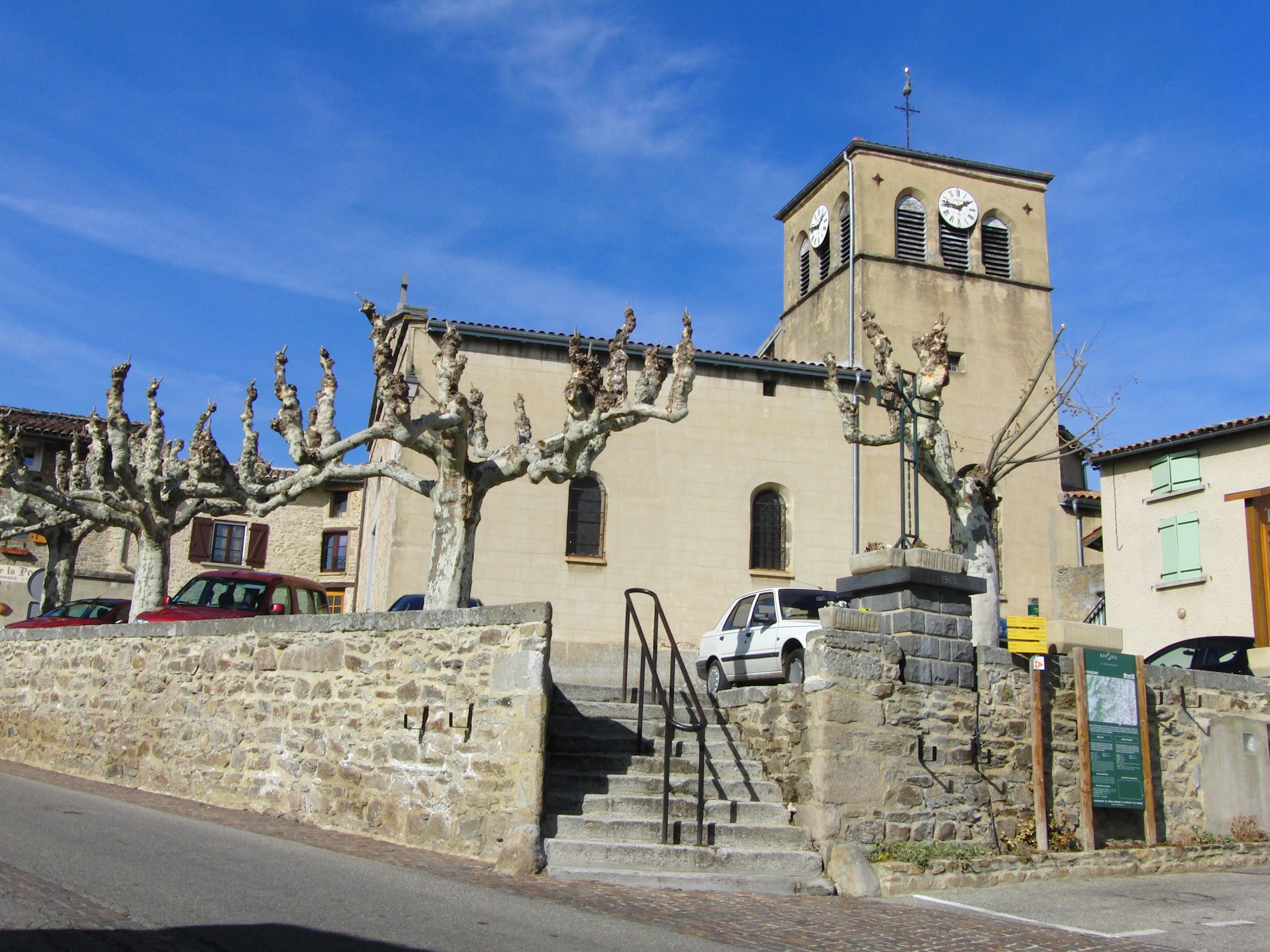 Chaussan church, Rhône, France